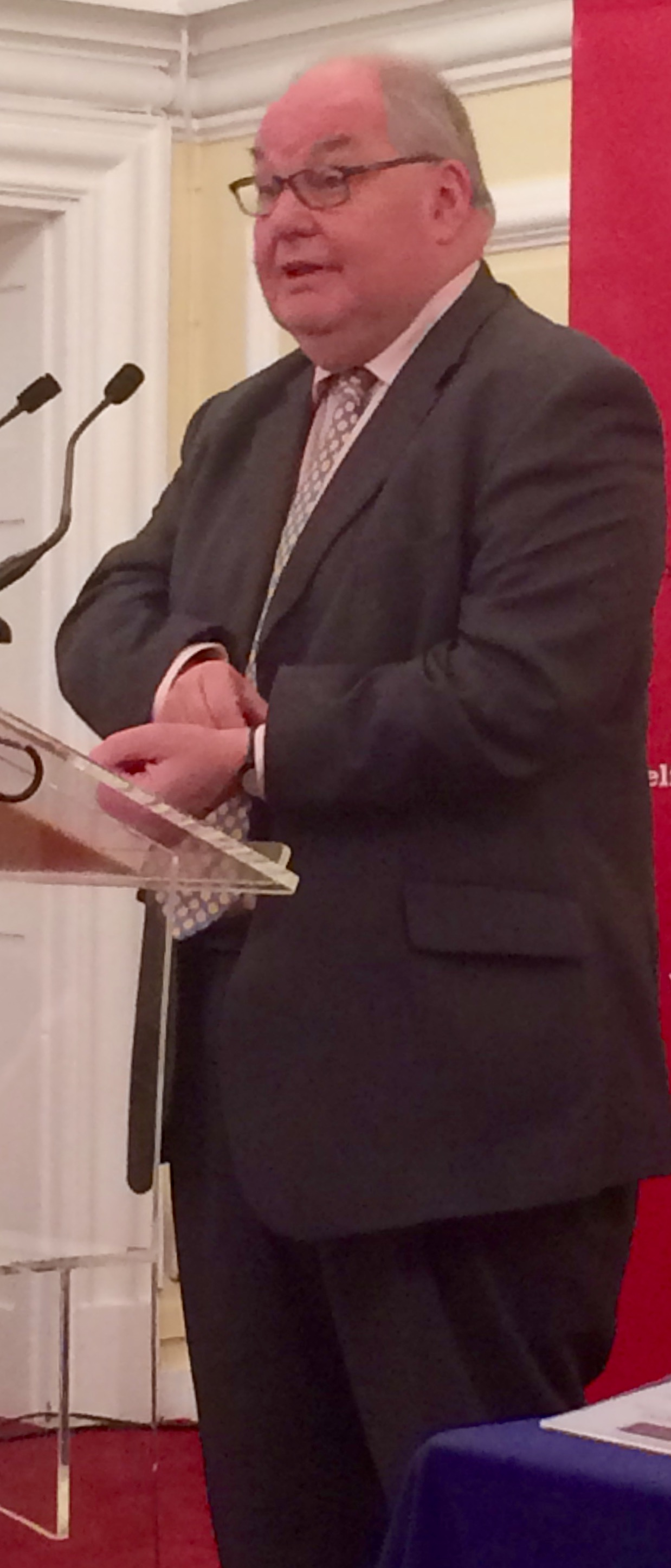 Roger Liddle at Central Hall Westminster, London November 2015